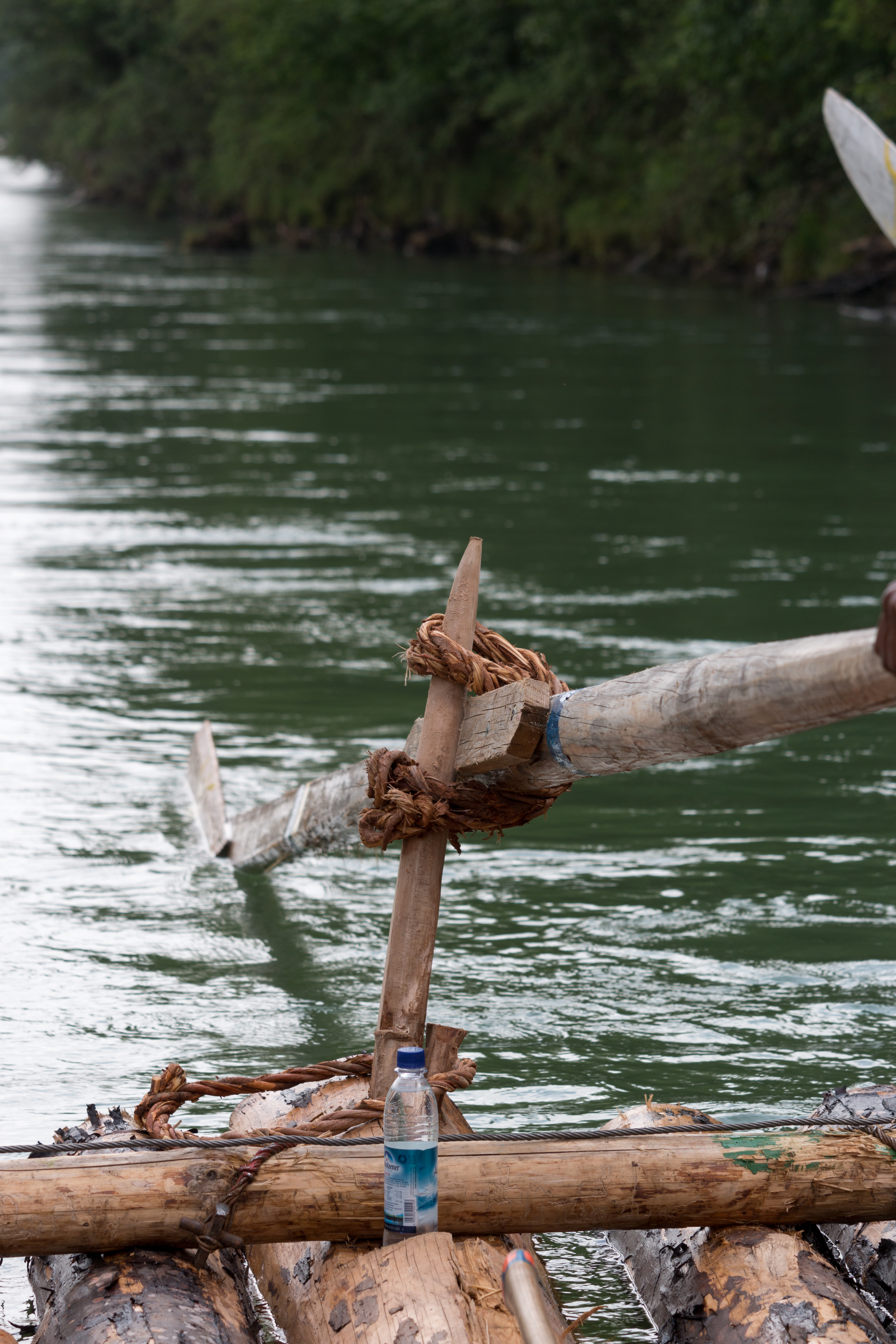 Detail of a (timber) raft on the river Isar. Bracket and steering oar.